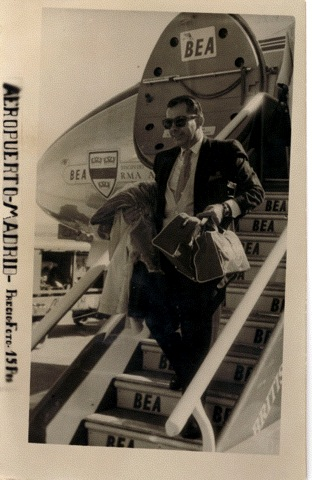 A photo of Bud Westmore exiting a plane.